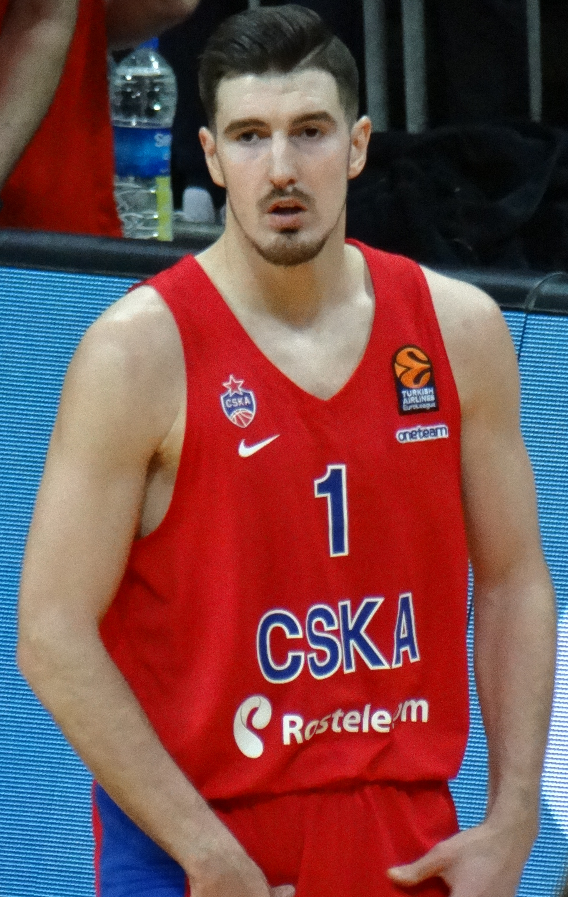 Nando de Colo 1 PBC CSKA Moscow EuroLeague 20180316